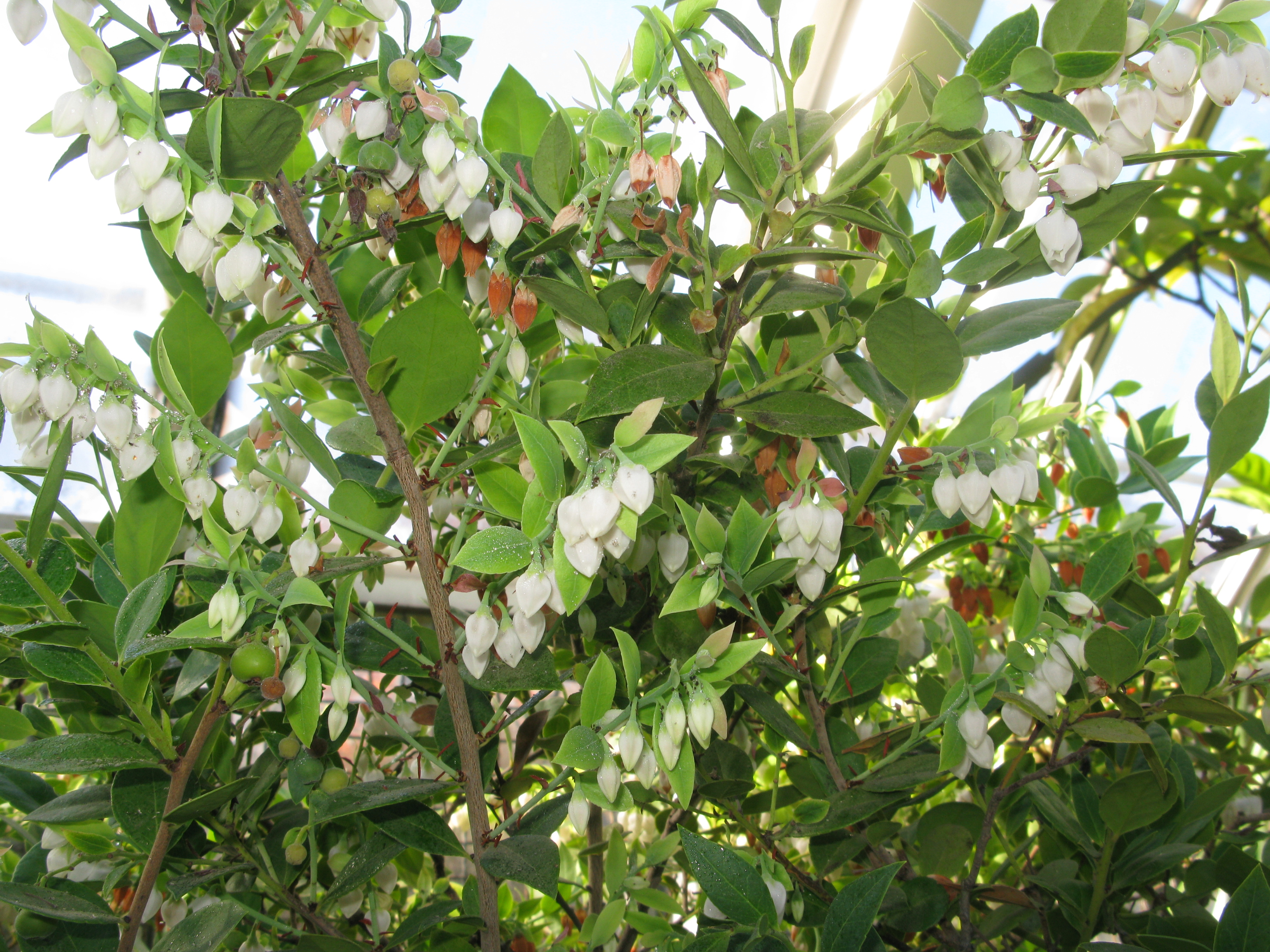 Vaccinium boninense, Koishikawa, Botanical Gardens, the University of Tokyo, Japan